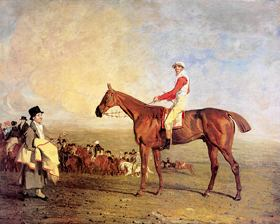 "Sam with Sam Chifney up". Painting of 1818 Epsom Derby winner Sam, with jockey Sam Chifney Jr. by Benjamin Marshall (1763-1835). Artist has been dead for 177 years.